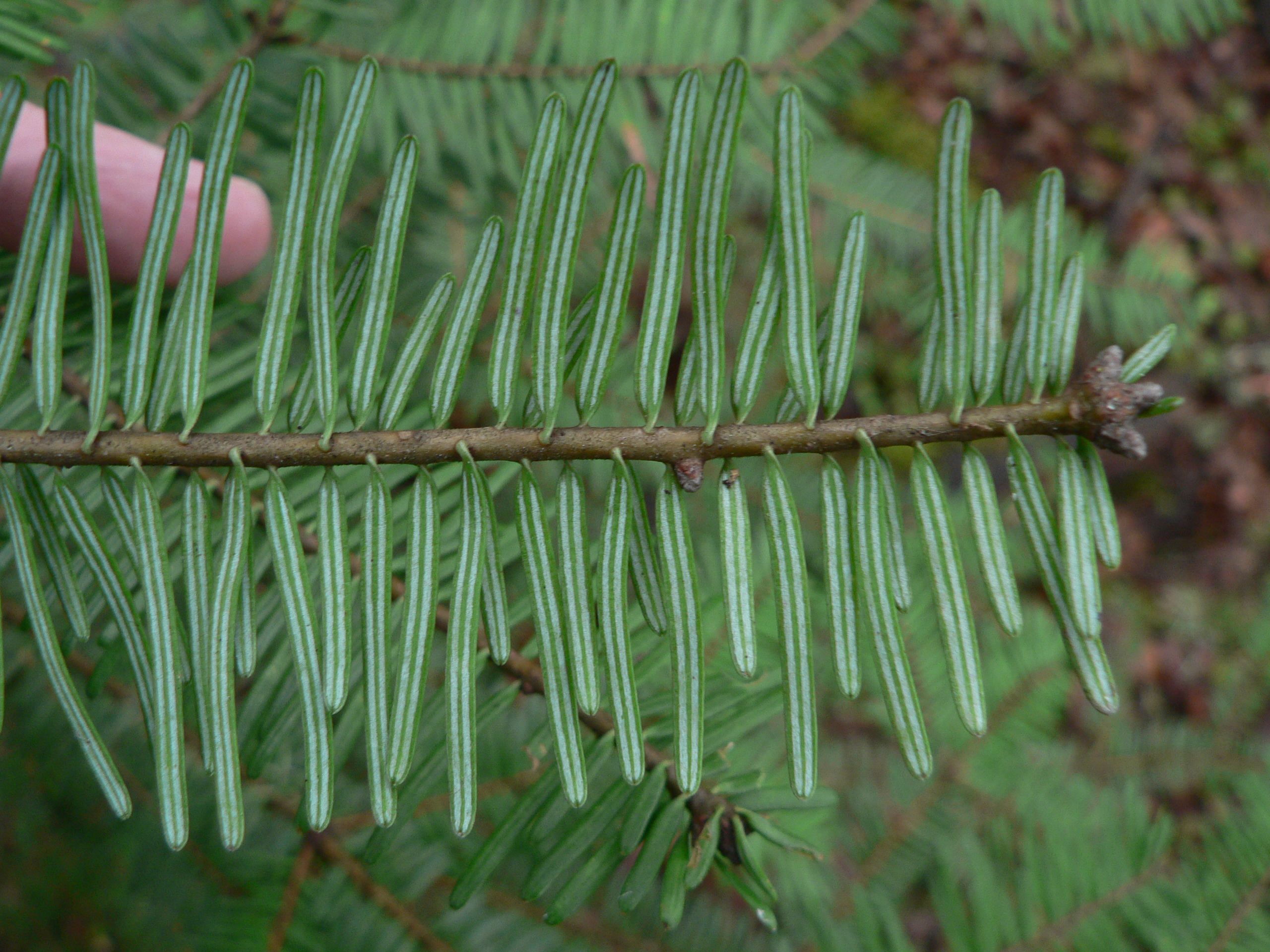 Abies grandis Description: Grand Fir (Abies grandis) foliage underside Viewpoint location: Mulkey Creek Trail, Bald Hill Trail System, Corvallis, Oregon, USA. Lat/Long: 44.5752°N, 123.3473°W (WGS84/NAD83) USGS Corvallis Quad [1] Viewpoint elevation: 620 feet View direction: N/A Date and time: 2006.04.02 15:31:57 PDT Camera: Panasonic Lumix DMC FZ5 Photographer: Walter Siegmund ©2006 Walter Siegmund